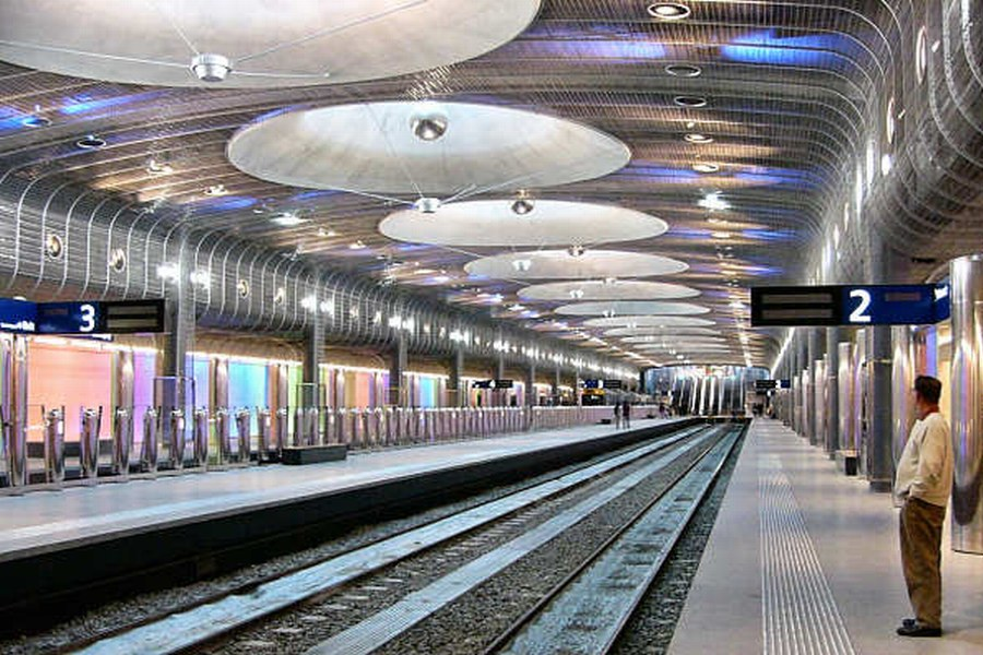 Platforms of Britomart Transport Centre in Auckland, New Zealand. Looking east along the underground platforms.